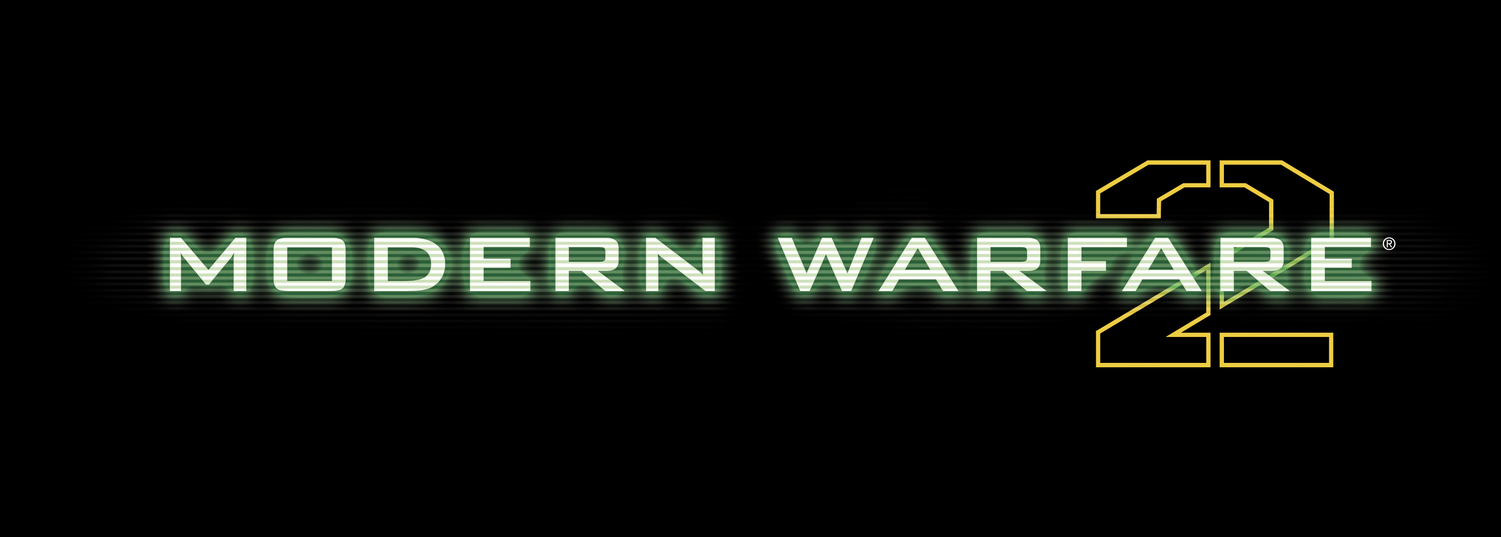 Official Logo of the videogame, owned by Activision (C), which is owned by Vivendi SA.